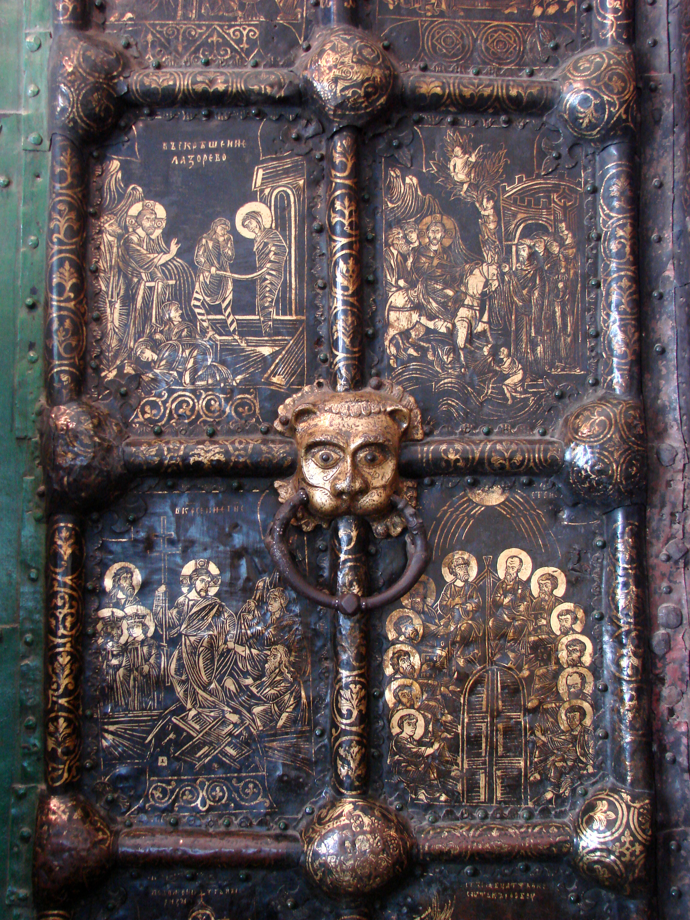 The Golden Doors in the Cathedral of the Nativity, Suzdal, Russia. Suzdal is one of the cities in the "Golden Ring" near Moscow. May 2008.